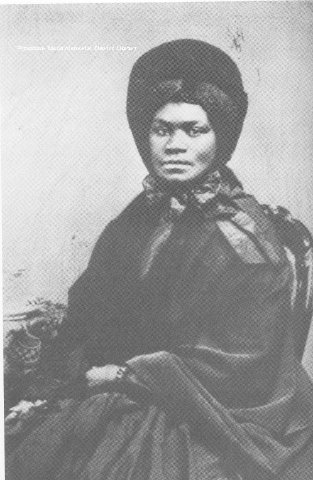 Daguerreotype of Lisette Denison Forth (c. 1786 – August 7, 1866), former slave from Michigan who became a landowner and philanthropist. Image appeared in Mark F. McPherson's Looking for Listette: In Quest of an American Original (2001)